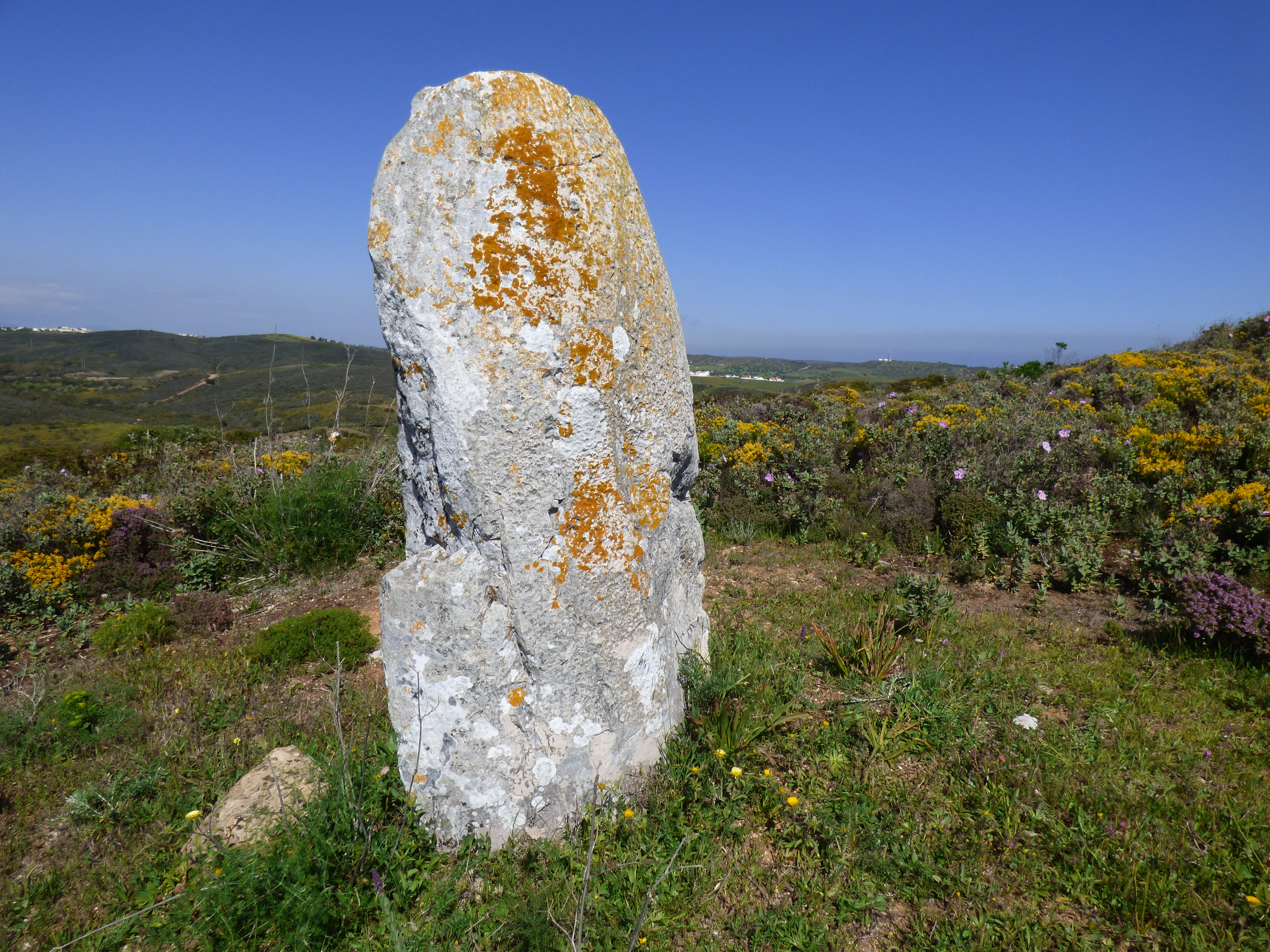 Menhir de Aspradantes, the only menhir in the Algarve who stood up to this day.